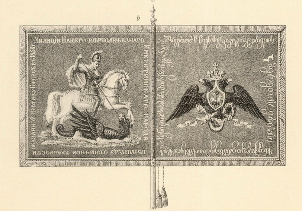 The war standard of the Imeretian militia of the Imperial Russian Army. The inscription reads in Russian and Georgian: "To the Militia of Our Faithful Imeretian People for Exceptional Courage Displayed against the Mountaineers in 1838."